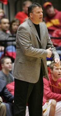 Iowa State coach Greg McDermott